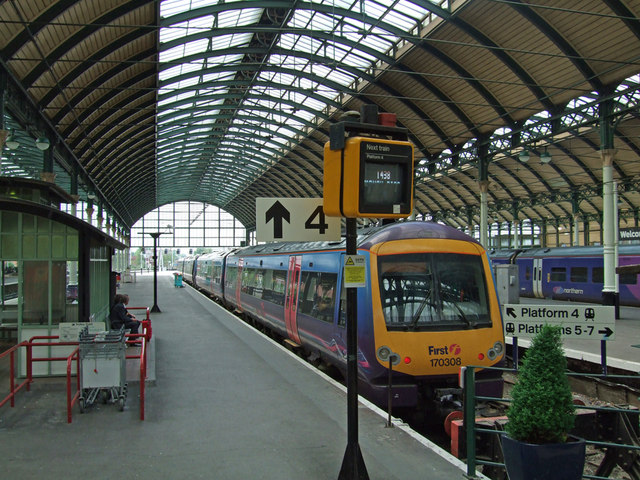 Paragon Station - Platform 4 The 14.38 to Manchester Piccadilly is waiting to depart.